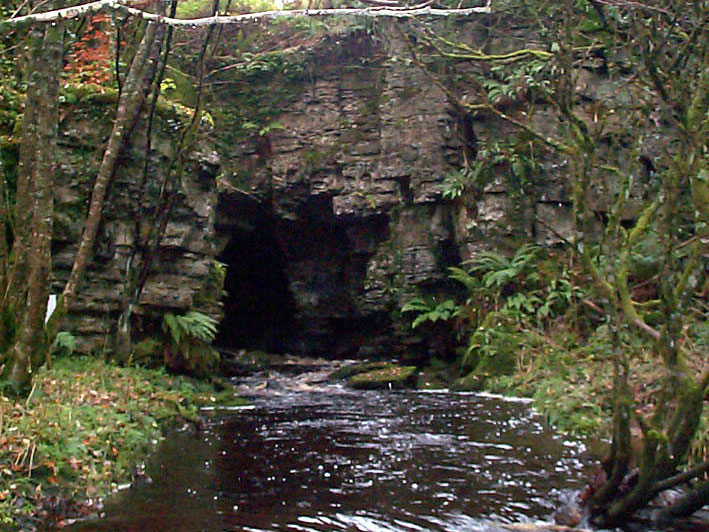 Photograph of quarry entrance of Boho Cave, Northern Ireland, in flood with stream running off, taken after wet weather; resurgence is elsewhere during periods of dry weather.